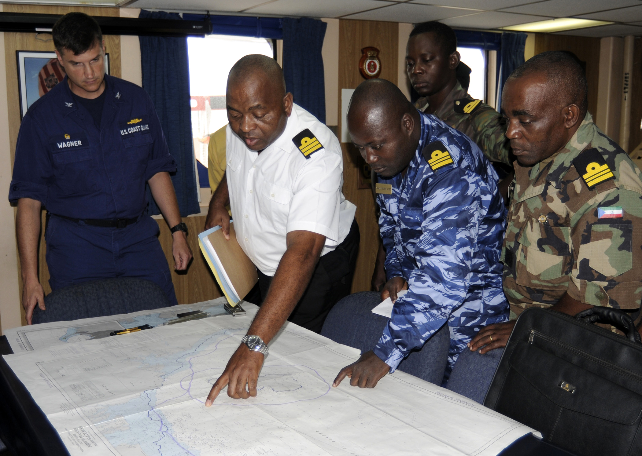 MALABO, Equatorial Guinea (July 10, 2008) Members of the Equatorial Guinea Navy go over plans for a mock boarding with Capt. Robert Wagner, commanding officer, aboard the U.S. Coast Guard Cutter Dallas (WHEC 716). Dallas is deployed to the supporting Africa Partnership Station (APS). APS is an initiative aimed at strengthening global-maritime partnerships through training and other collaborative activities in order to improve global maritime safety and security. U.S. Coast Guard photo by Public Affairs Specialist 1st Class Tasha Tully (Released)